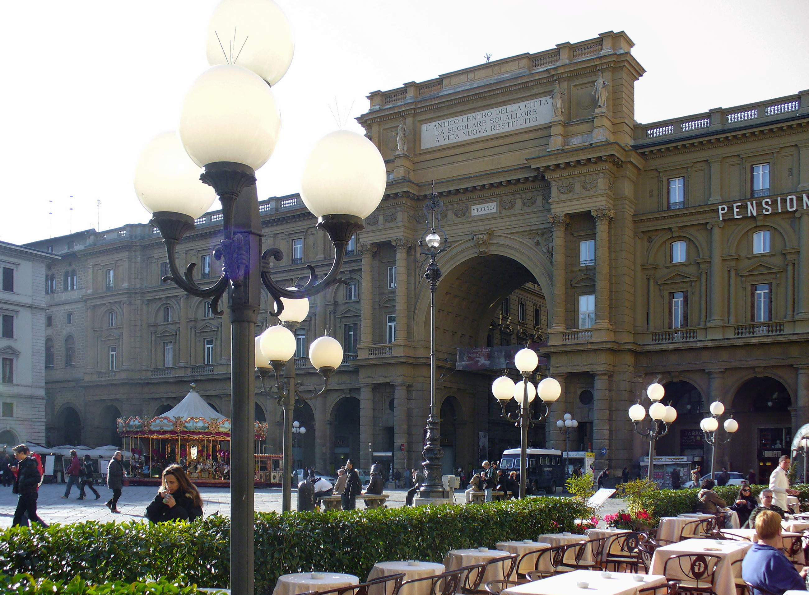 Gilli, Piazza della Repubblica (Florence)